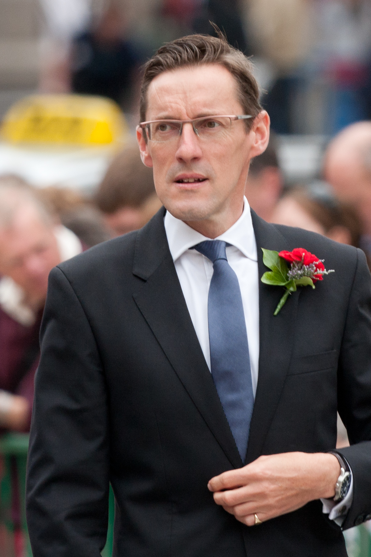 Senator Ian Gorst, Chief Minister of Jersey.